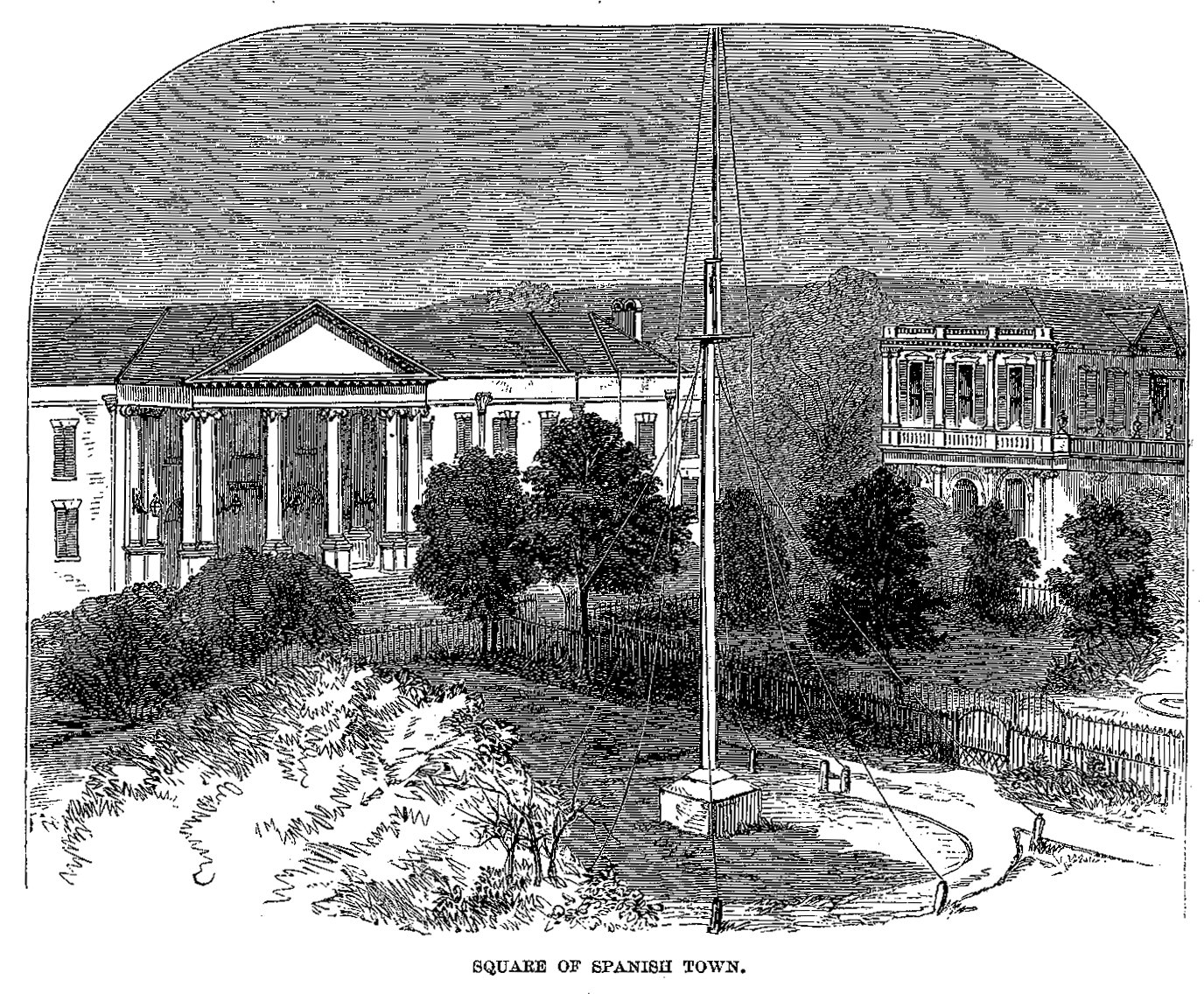 "Square of Spanish Town", illustration of article "Cast-away in Jamaica" by W.E. Sewell, in Harper's Monthly Magazine, January 1861.